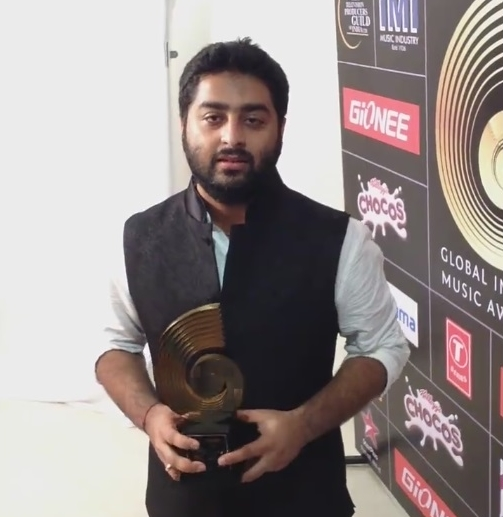 Arijit singh at GiMA Awards 2015